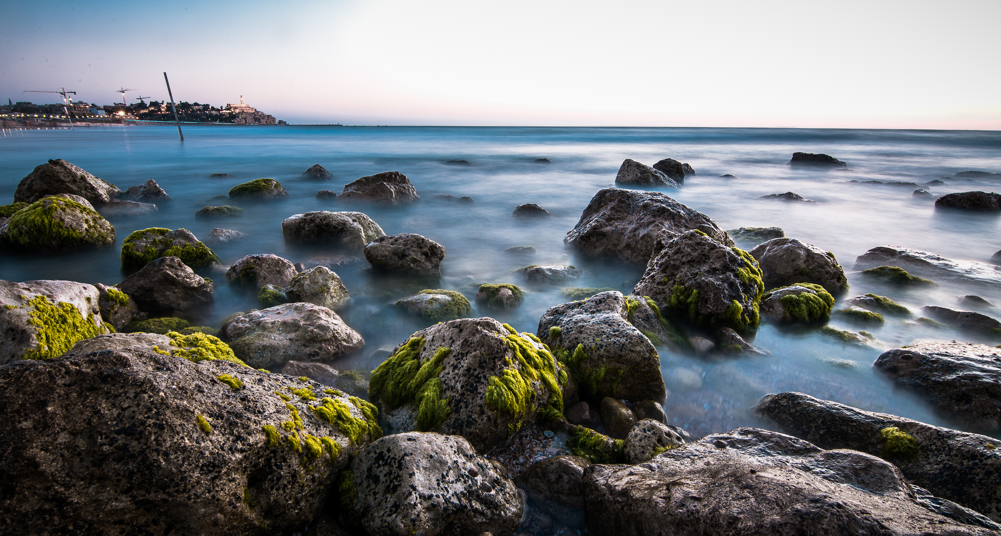 Jaffa, Geography of Israel